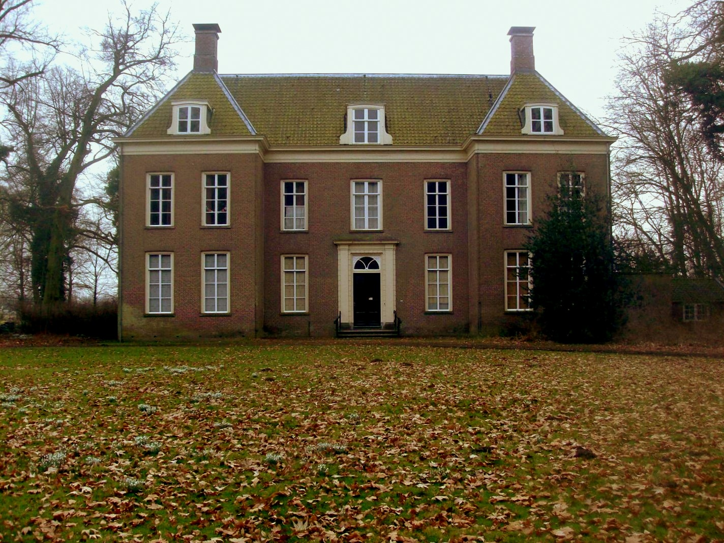 The estate "Oud-Amelisweerd" near Utrecht in The Netherlands.